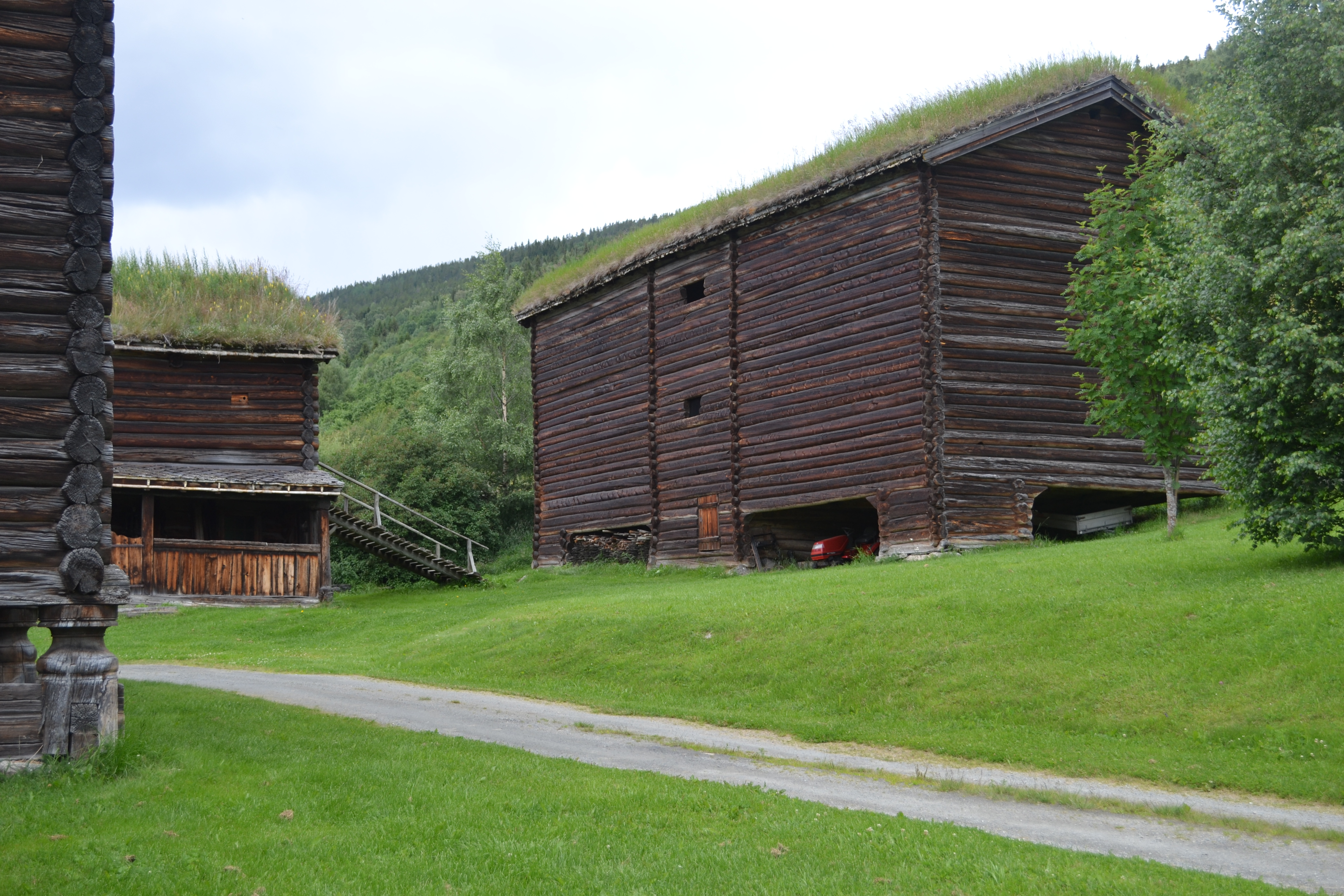 Log buildings from the 18th century on a farm in Heidal, Norway. fram the left: Corner of "Loft" building for storage, a horse stable and a log barn.